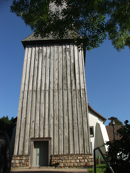 Front of the Lutheran Church in Flintbek, Germany showing impressive wooden tower surmounted by a wooden steeple. Photo taken by editor.